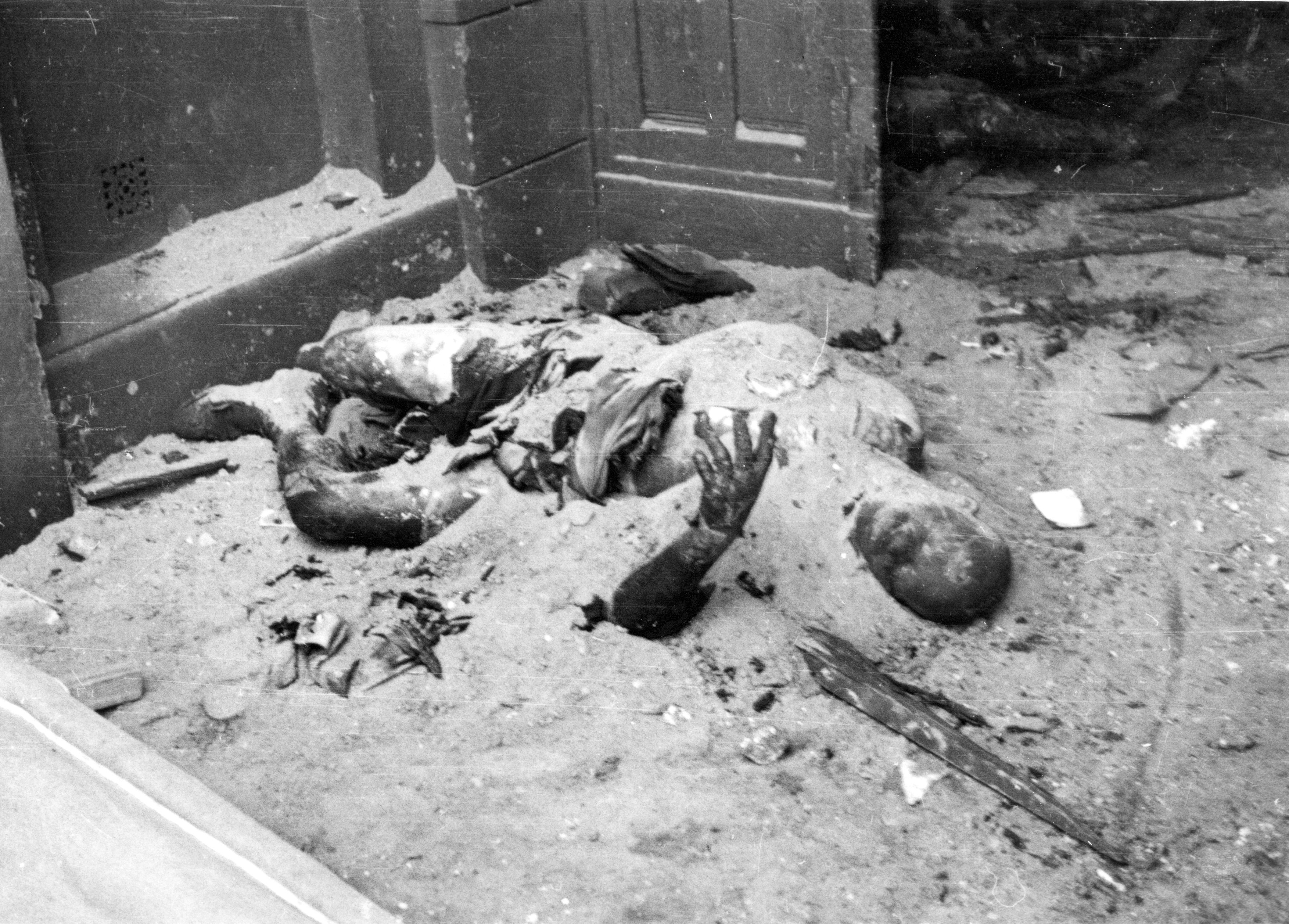 Polish civilians burned by Nebelwerfer rocket by German forces in Warsaw